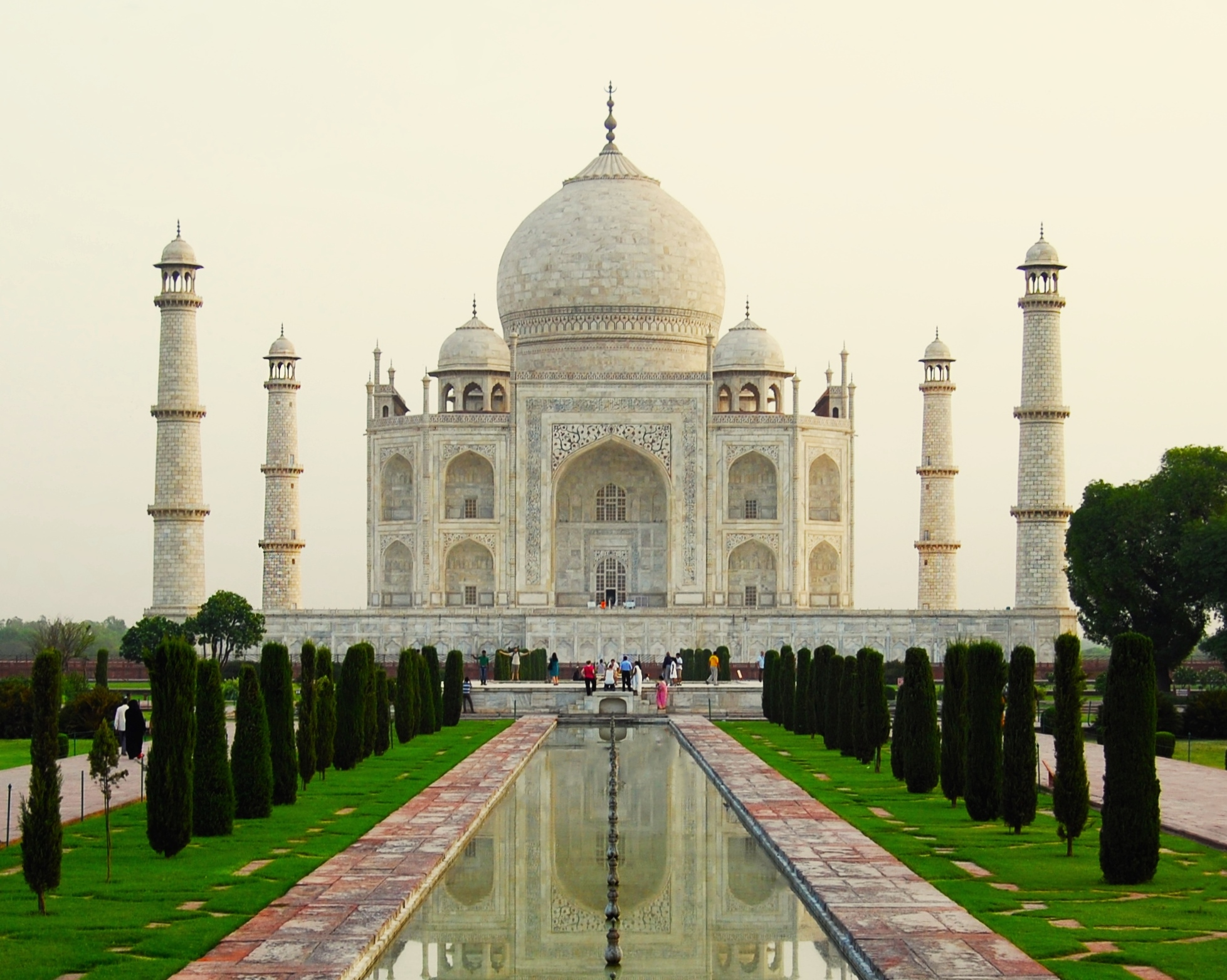 A morning shot of the Taj Mahal